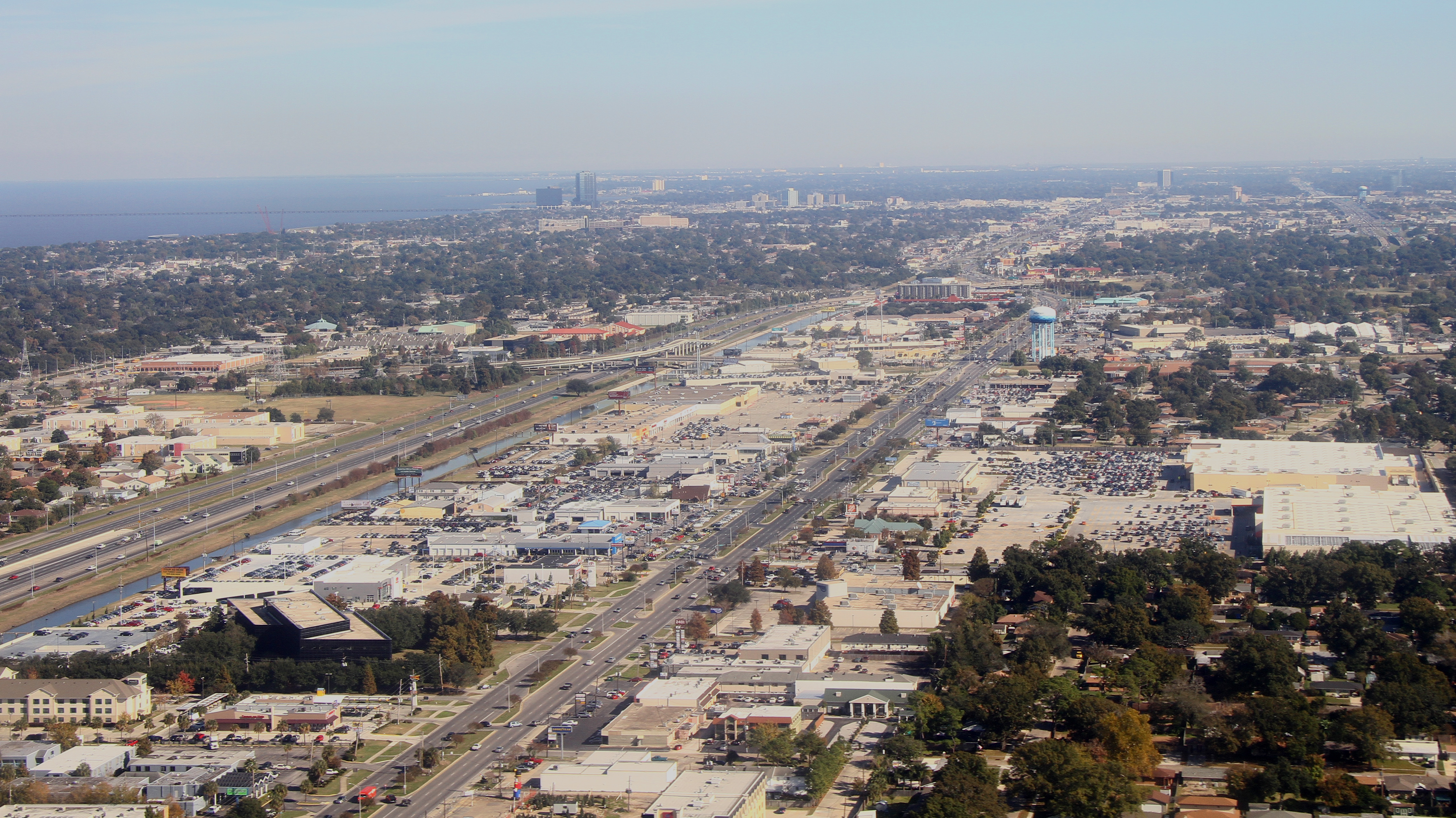 Suburbs of New Orleans, LA. View from over Kenner, Louisiana, looking east to Metarie, Louisiana. Veterans Boulevard is the major street running into distance on center/right; Interstate 10 to left. Shore of Lake Pontchartrain seen at top left.